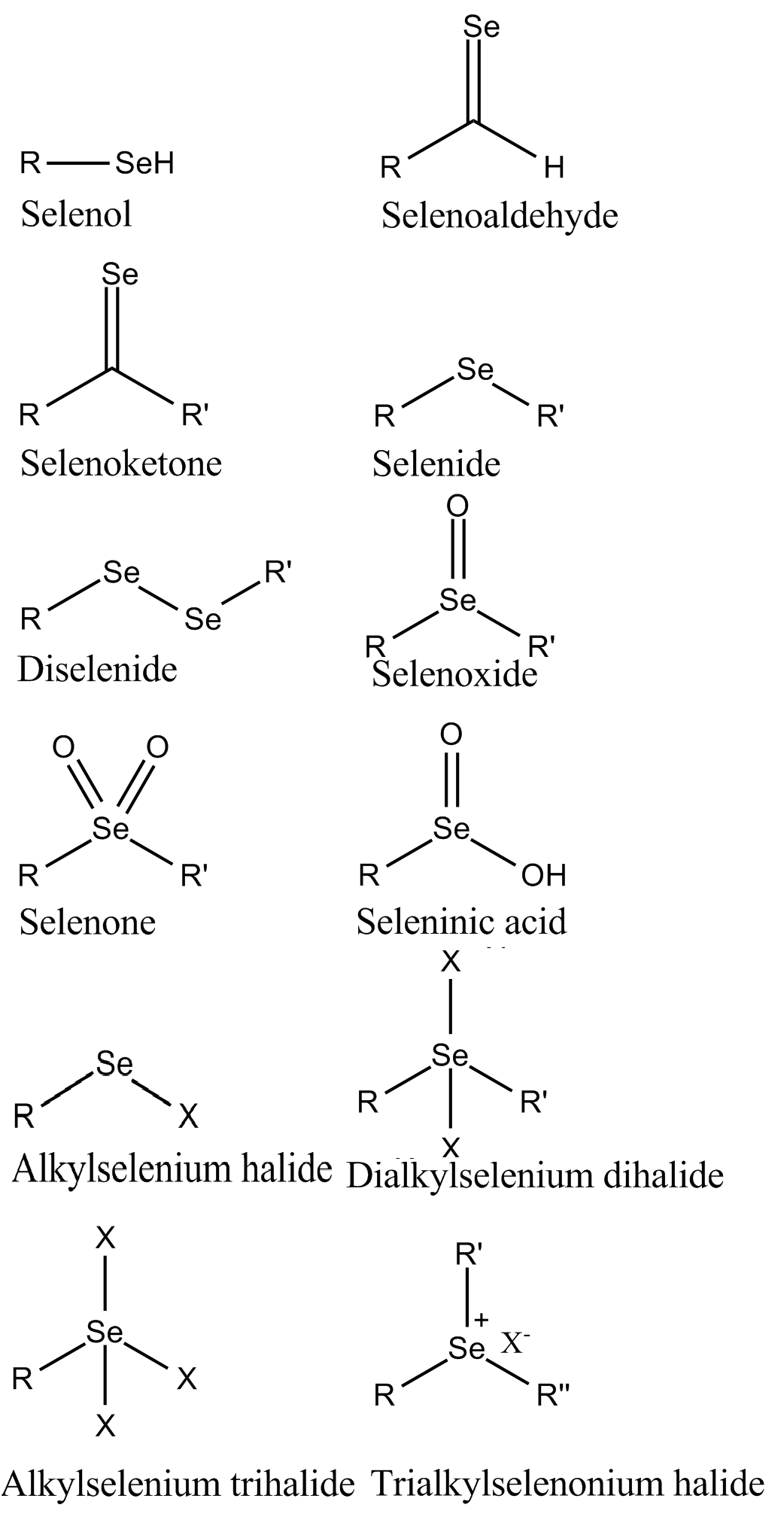 Structures of several organoselenium compounds. Drawn with ChemBioDrawUltra 12.0.2